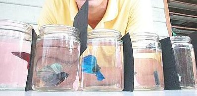 bettas in jars